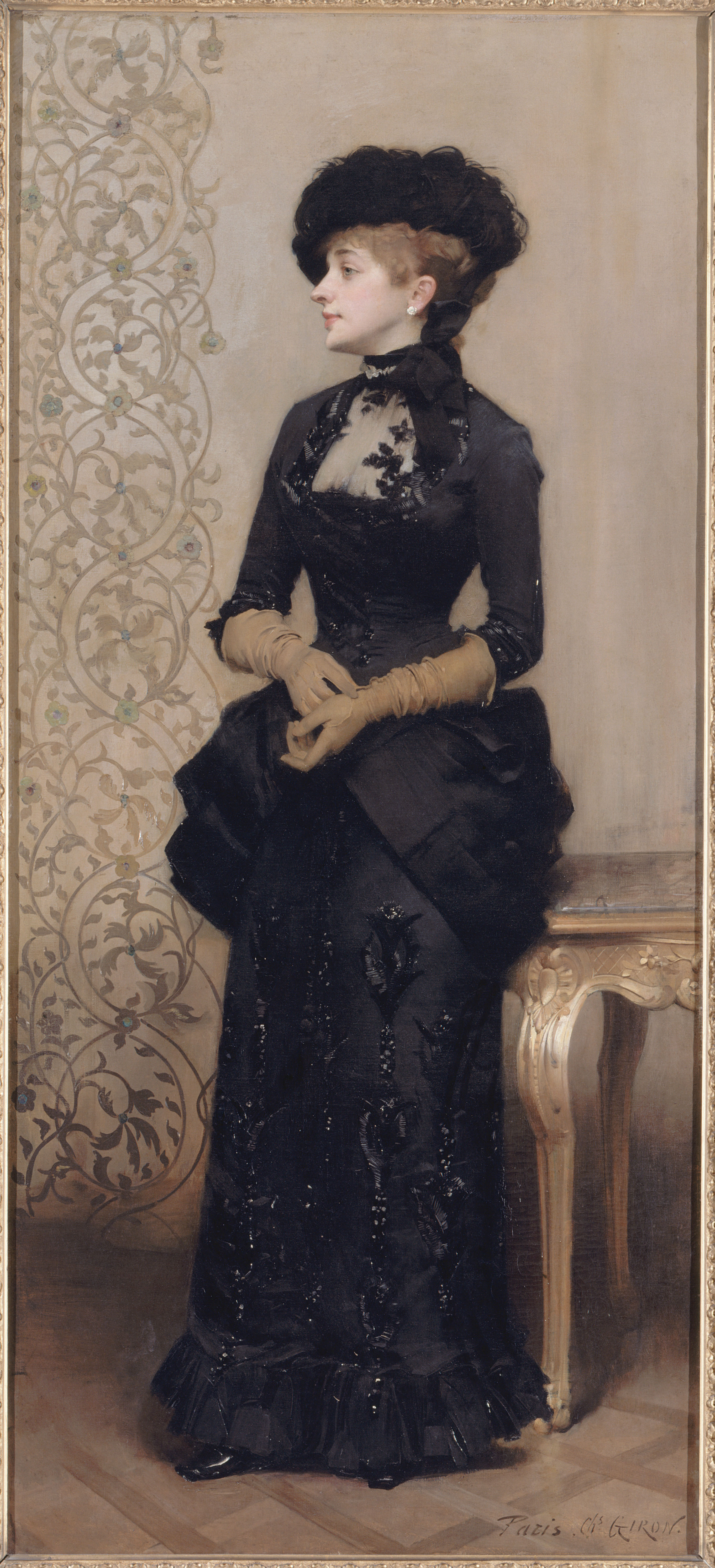 Known as La Parisienne.